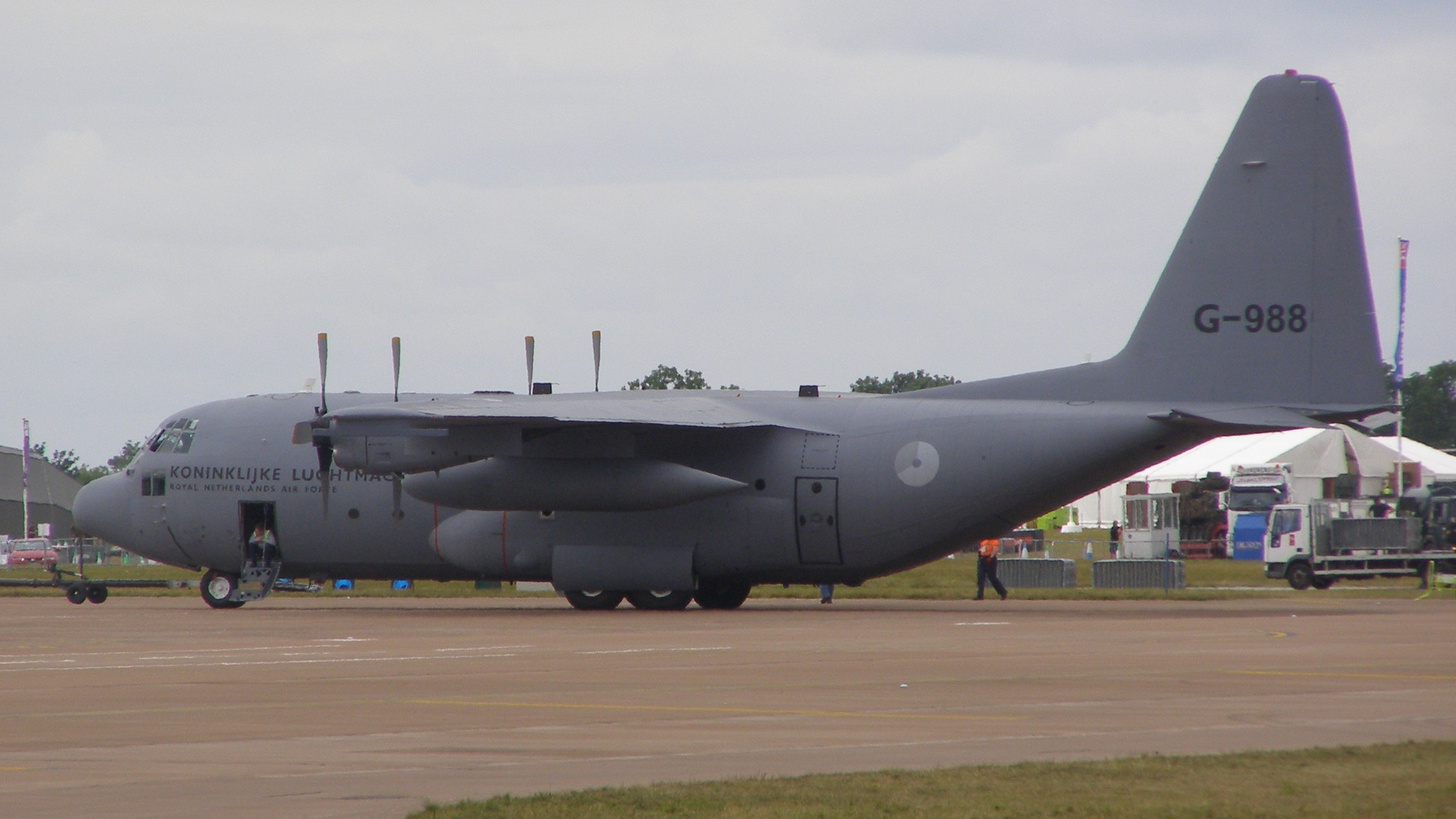 Lockheed C-130H Hercules (serial number G-988) of the Royal Netherlands Air Force on display at the Royal International Air Tattoo 2009 at RAF Fairford, England.